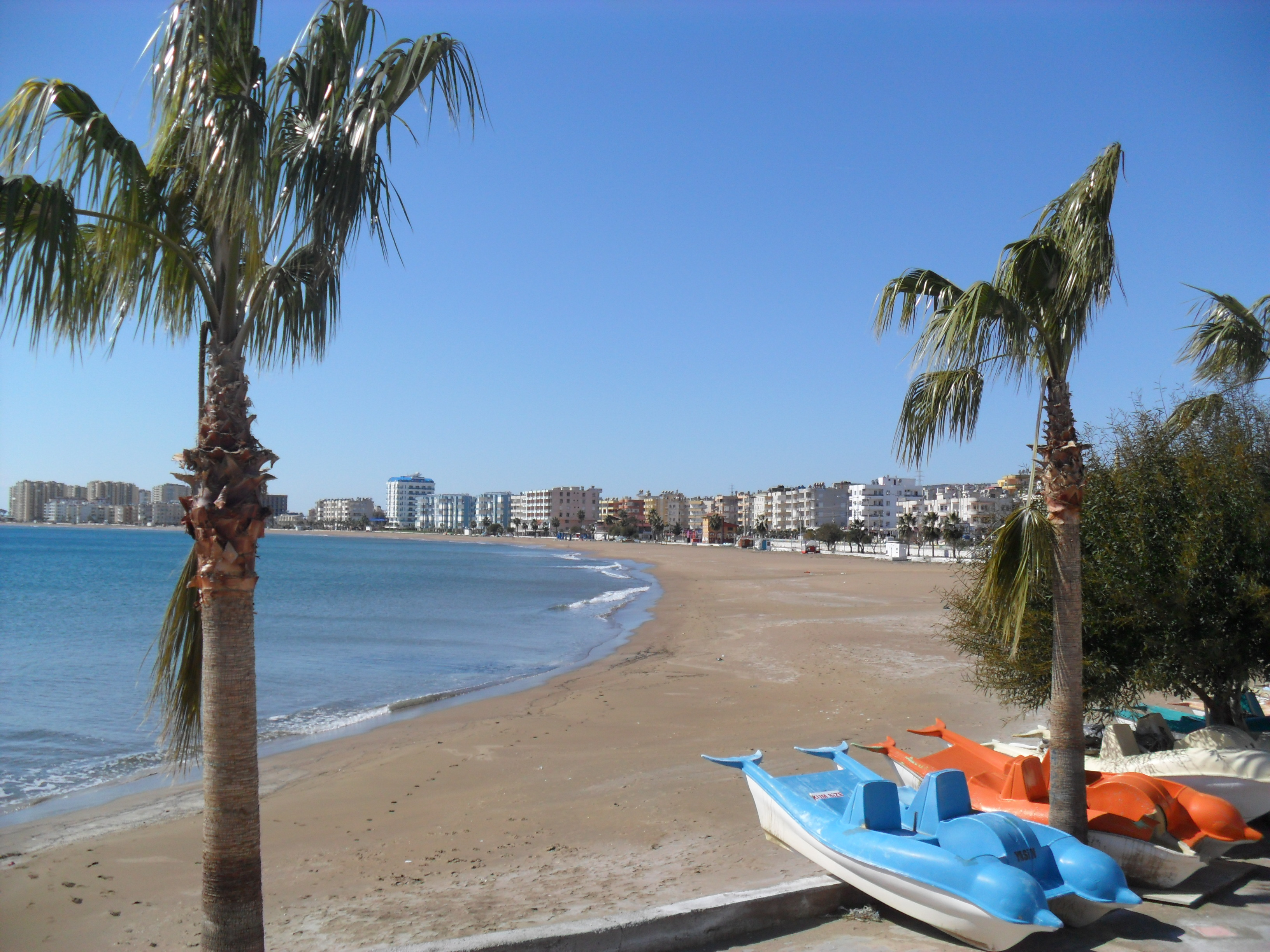 Atakent coast